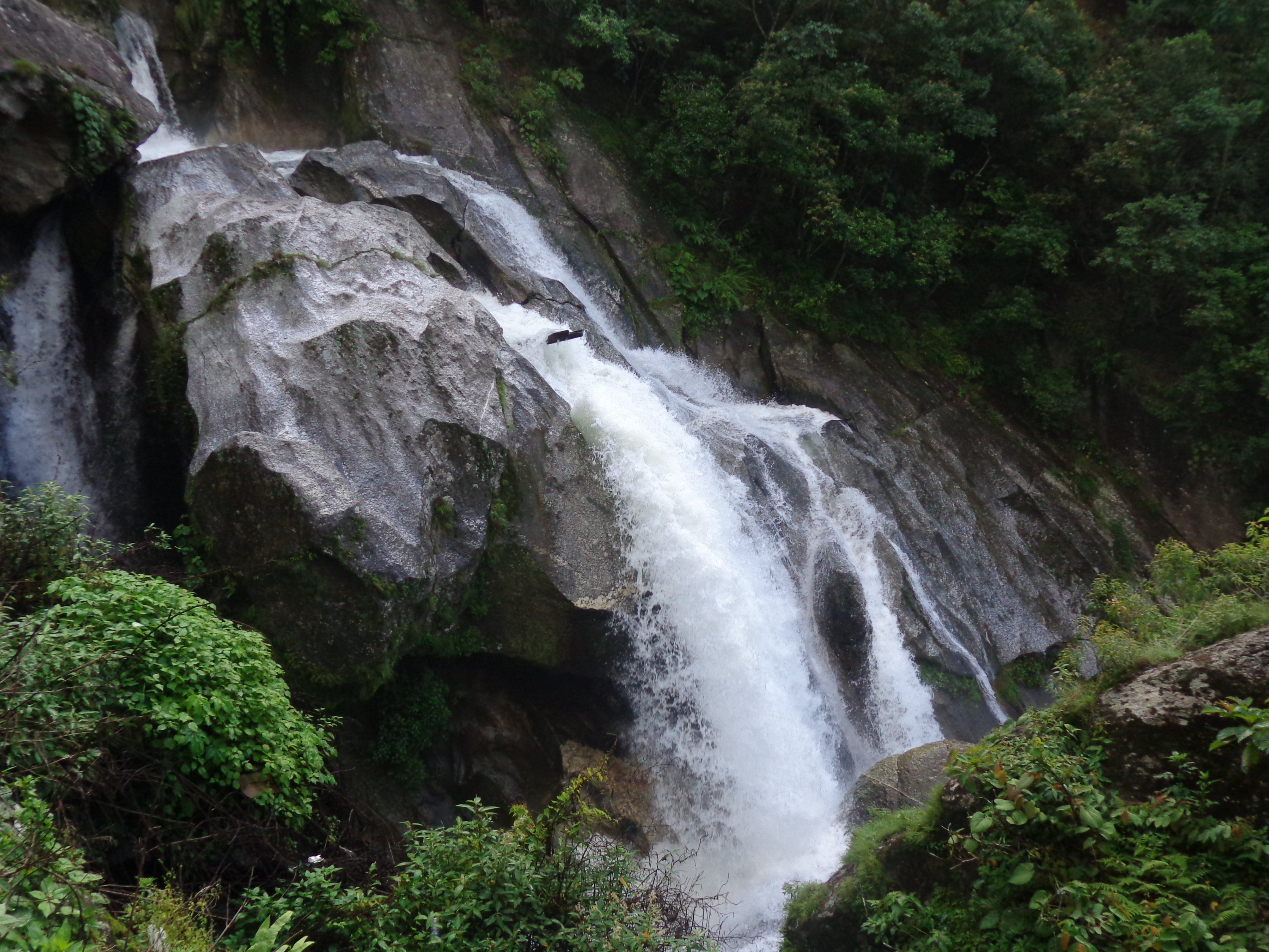 Sundarijal